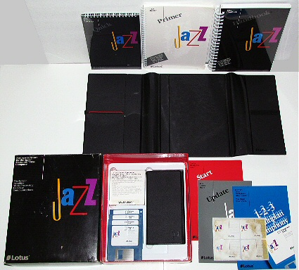 Contents of Lotus Jazz Release 1 package.